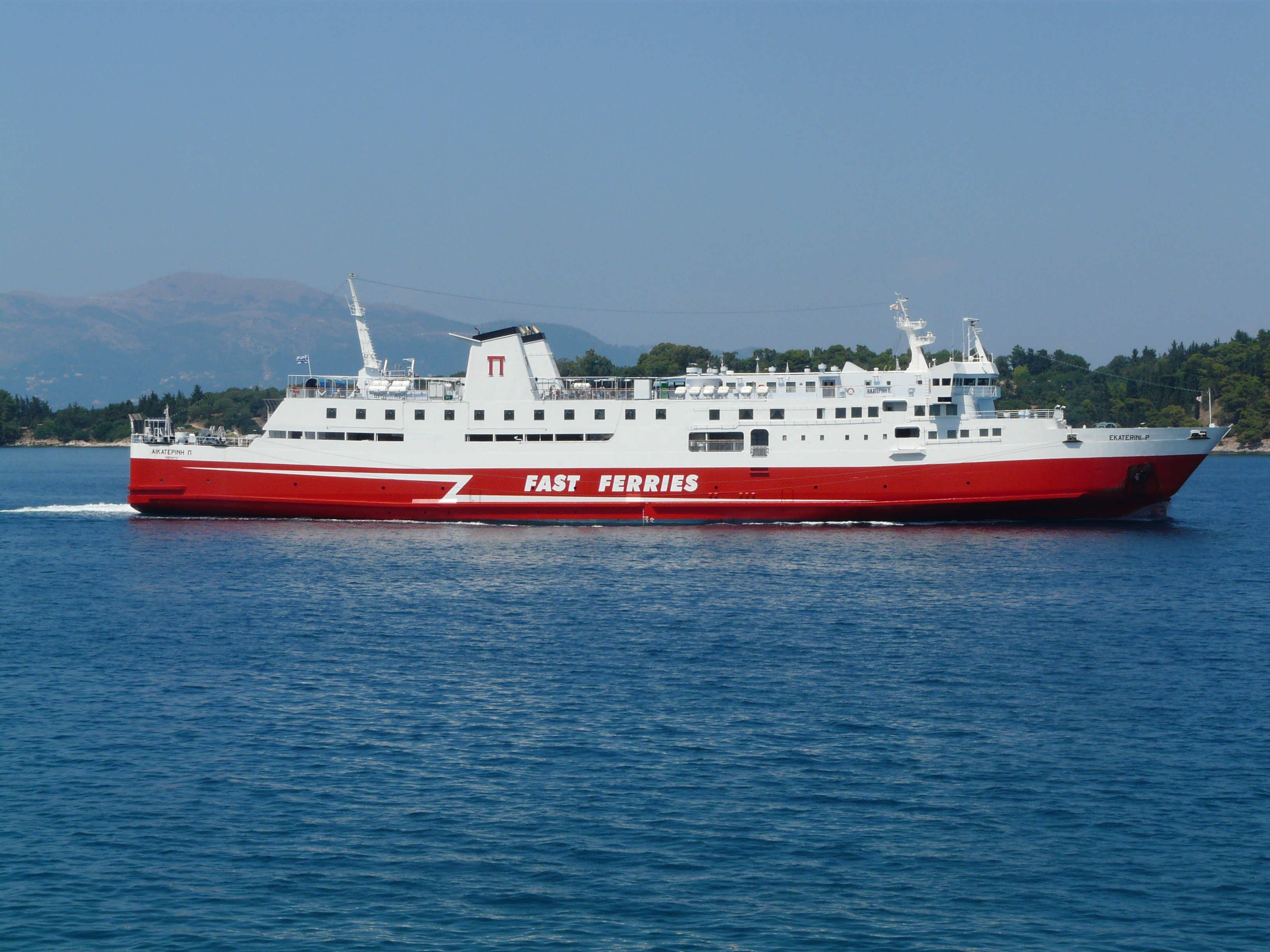 Corfu town.Corfu, Greece.